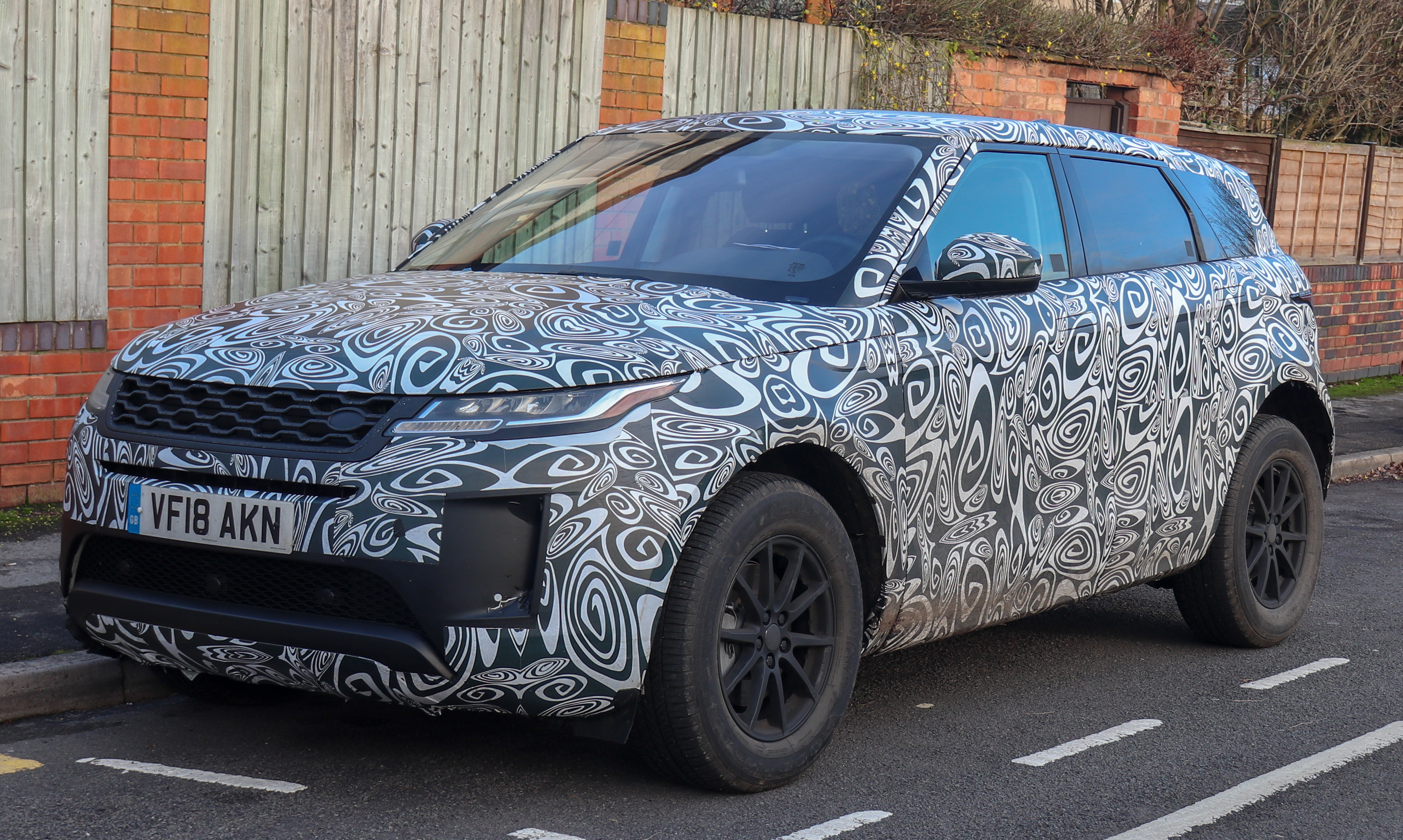 2018 Land Rover Range Rover Evoque (L551) Development Mule 2.0 Front Taken in Warwick